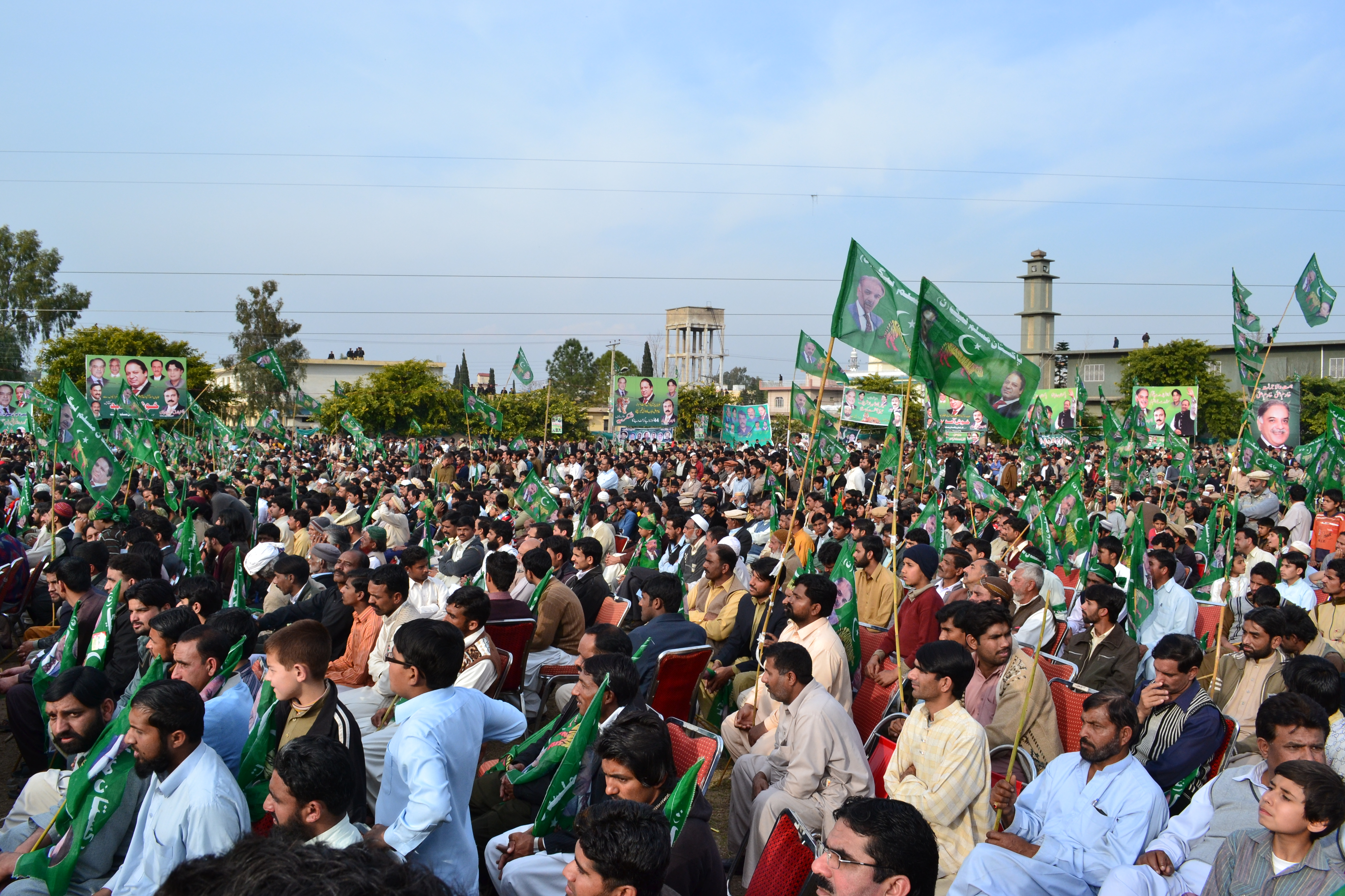 Noon League Meeting in Islambad